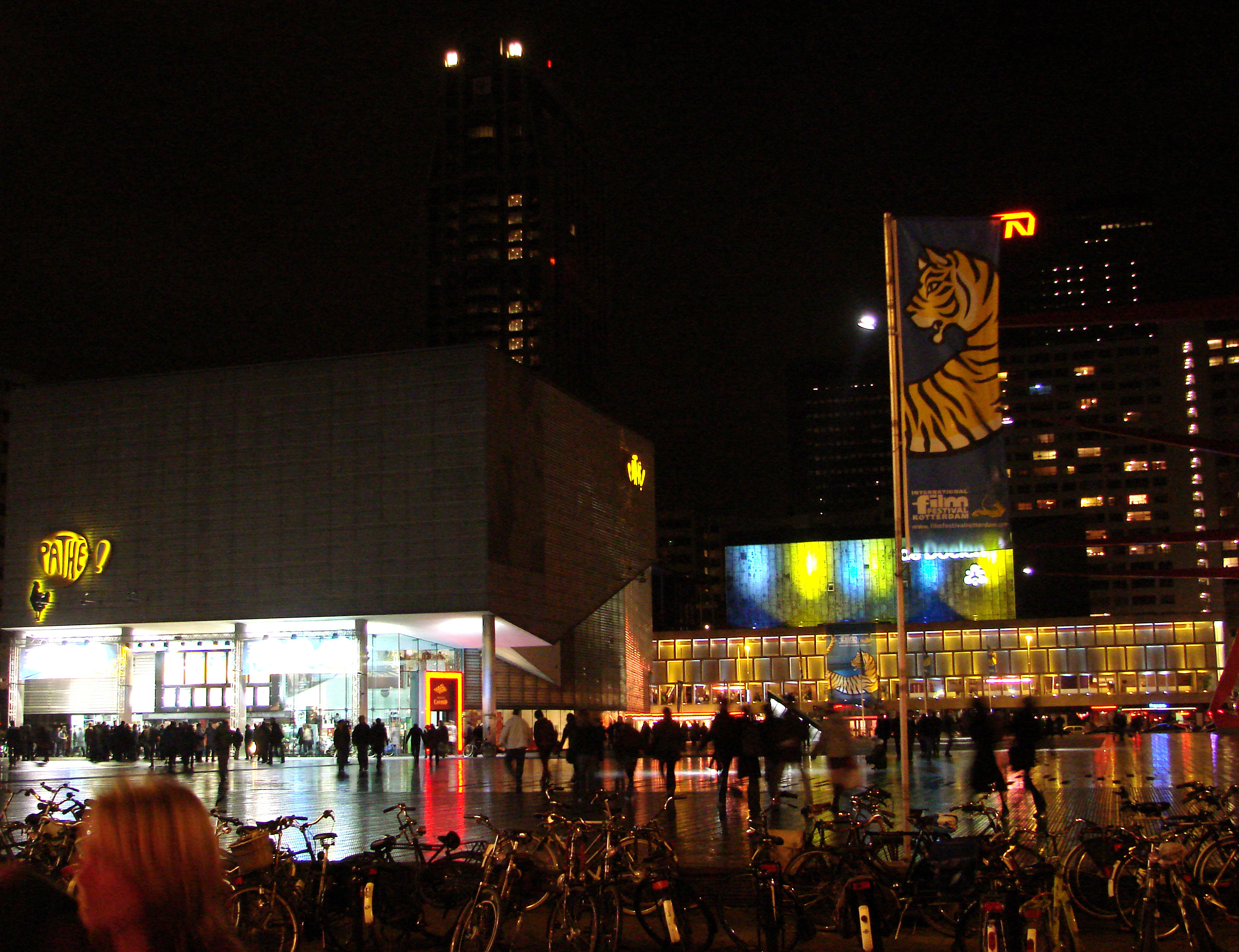 Rotterdam, Schouwburgplein during the filmfestival